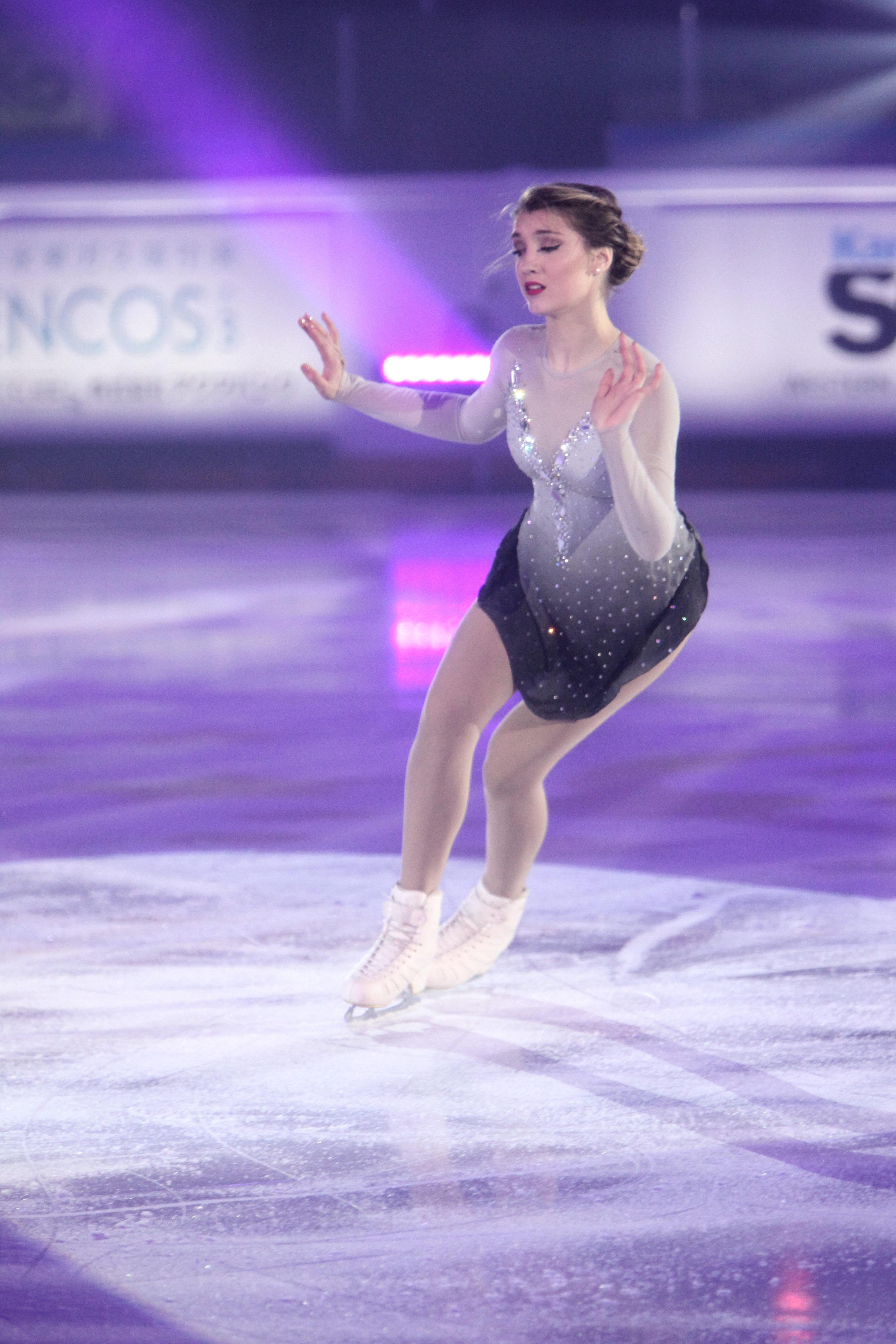 Alexia Paganini during the gala at the Internationaux de France de Patinage 2018.